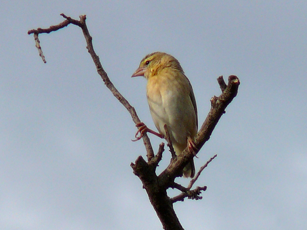 Northern Red Bishop, Female or non-breeding male. Gambia.